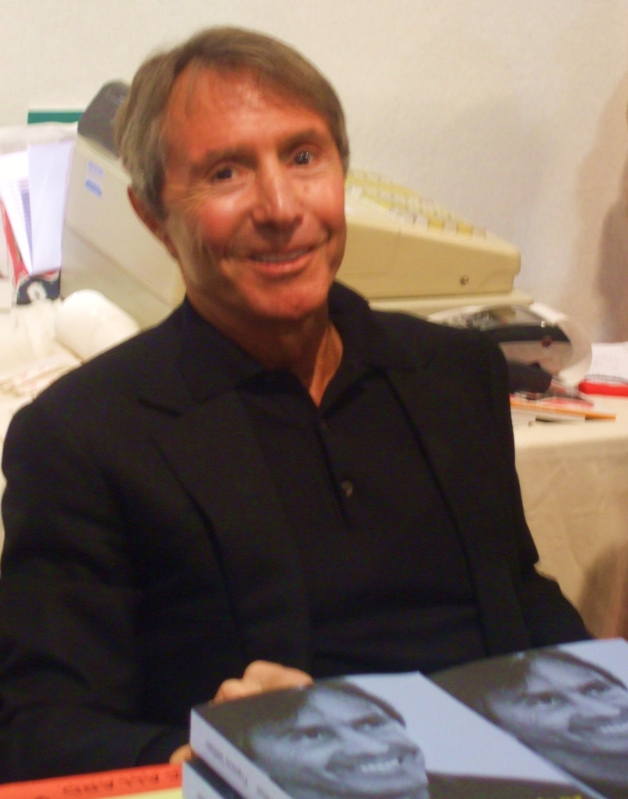 Francis Veber french director, screenwriter and producer, Brive la Gaillarde book fair, France, 2010 11 06